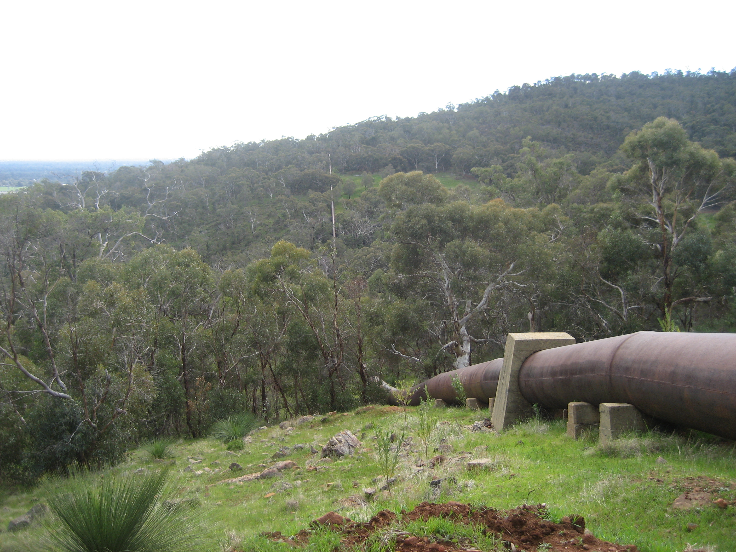 Canning Contour Channel Kelmscott, Western Australia